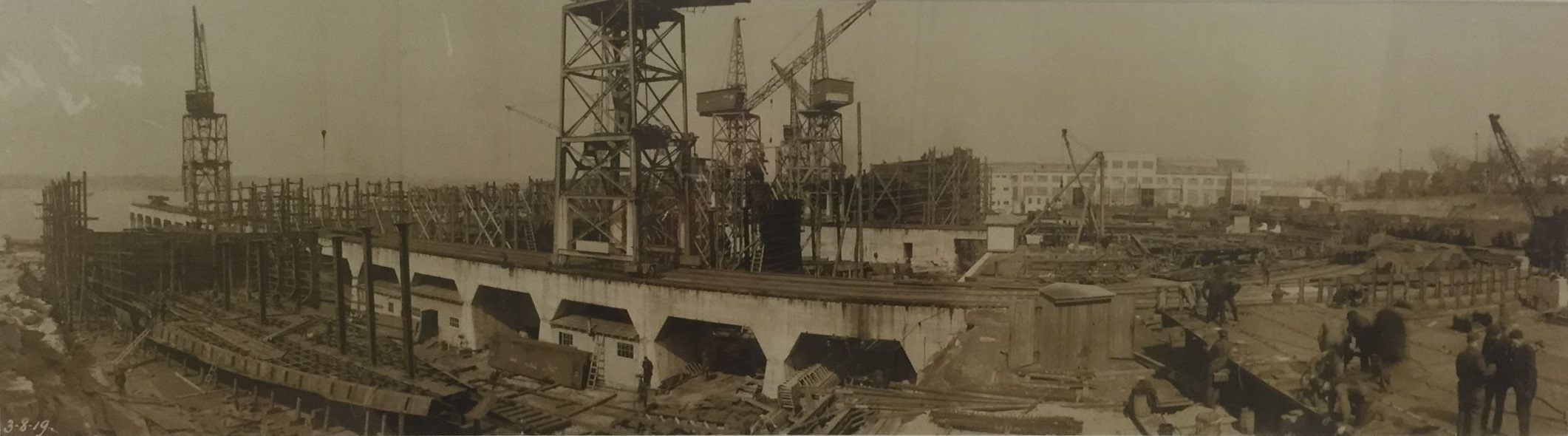 Steamship construction at Groton Iron Works